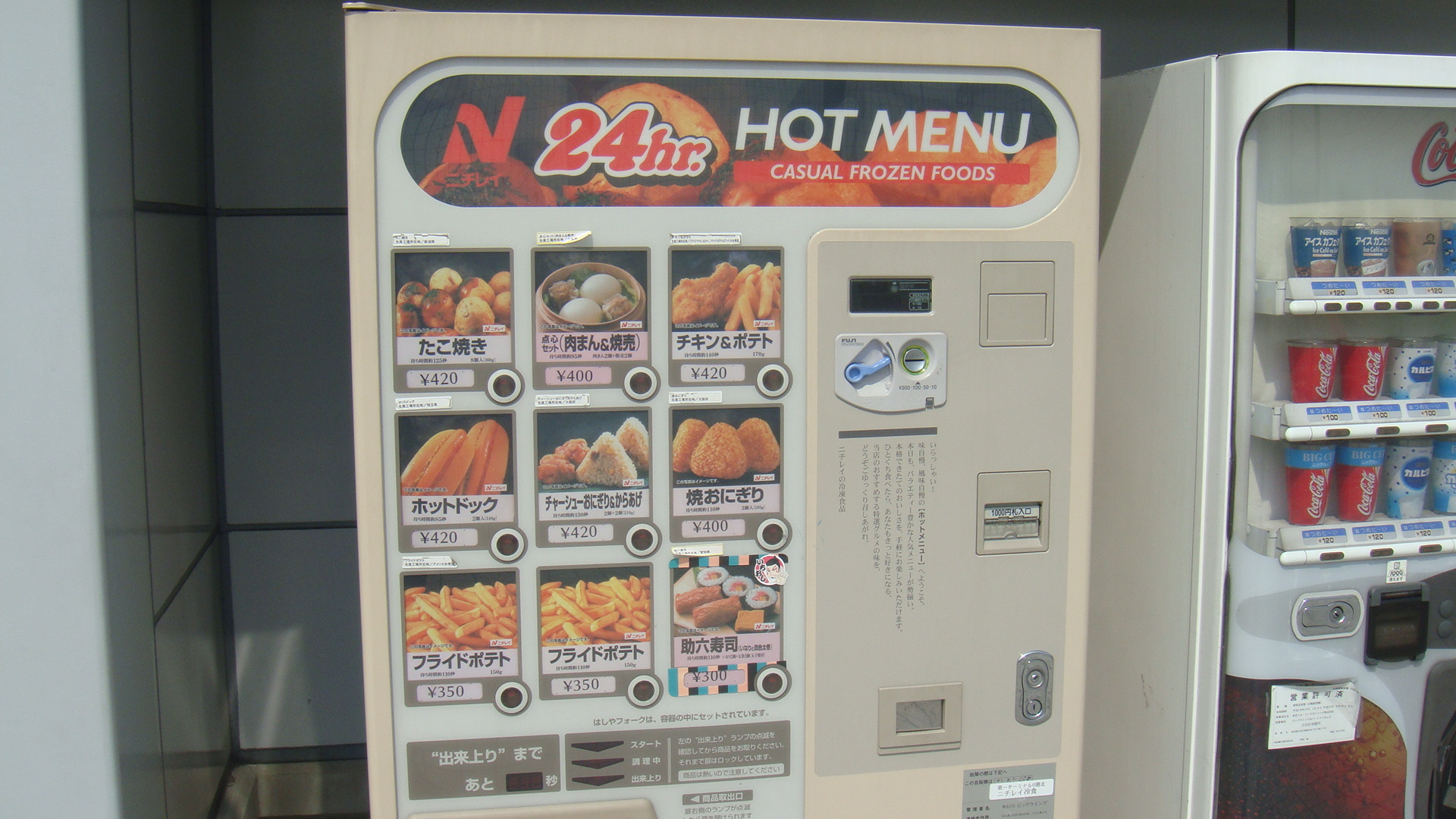 At Haneda Airport. On my way to Fukuoka from Sapporo via Skymark Airlines.